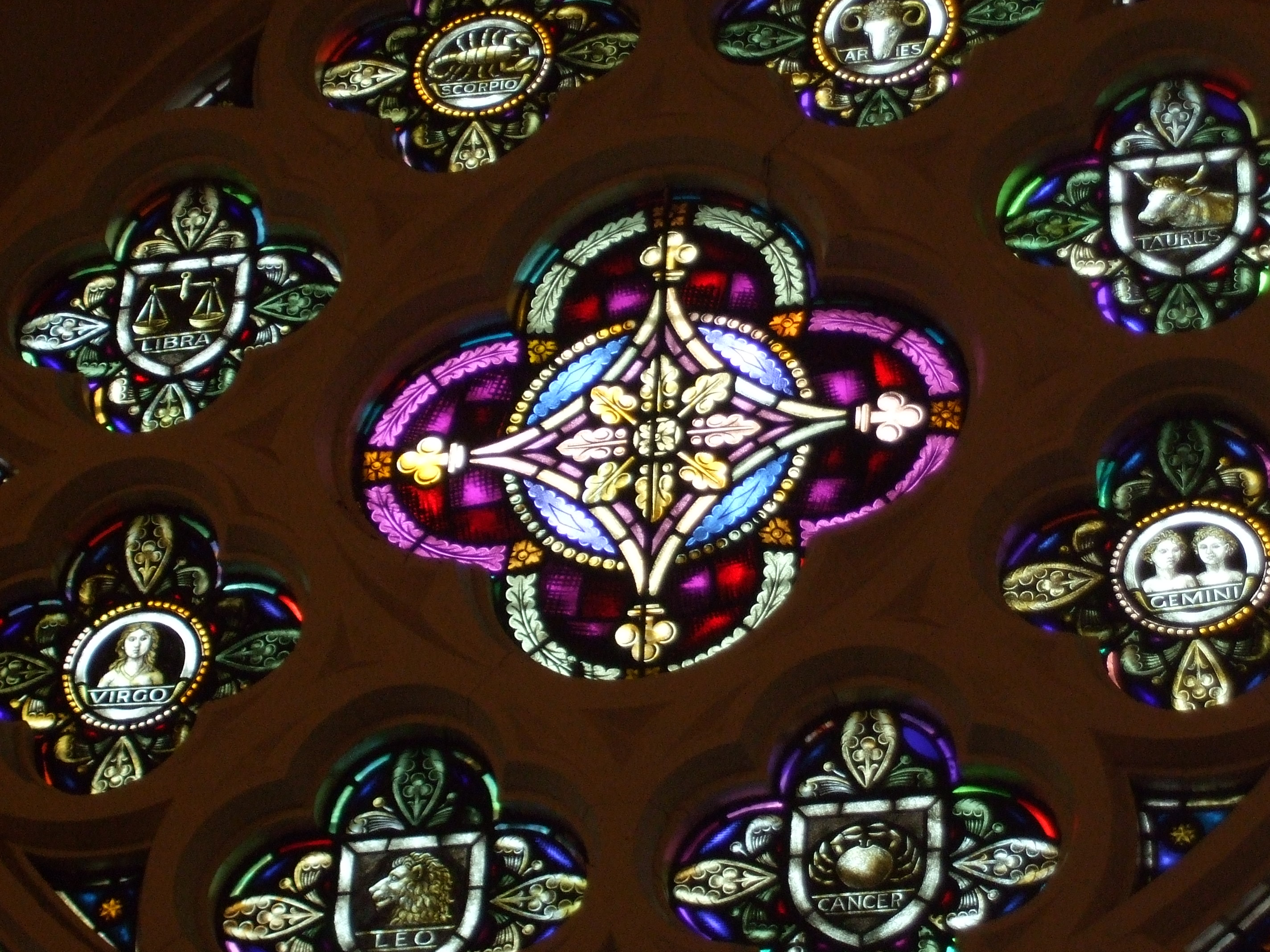 This is a partial astrological wheel (missing 4 out of 12 signs) found in a christian church located in Cambridge, Ontario, Canada and finished in 1889